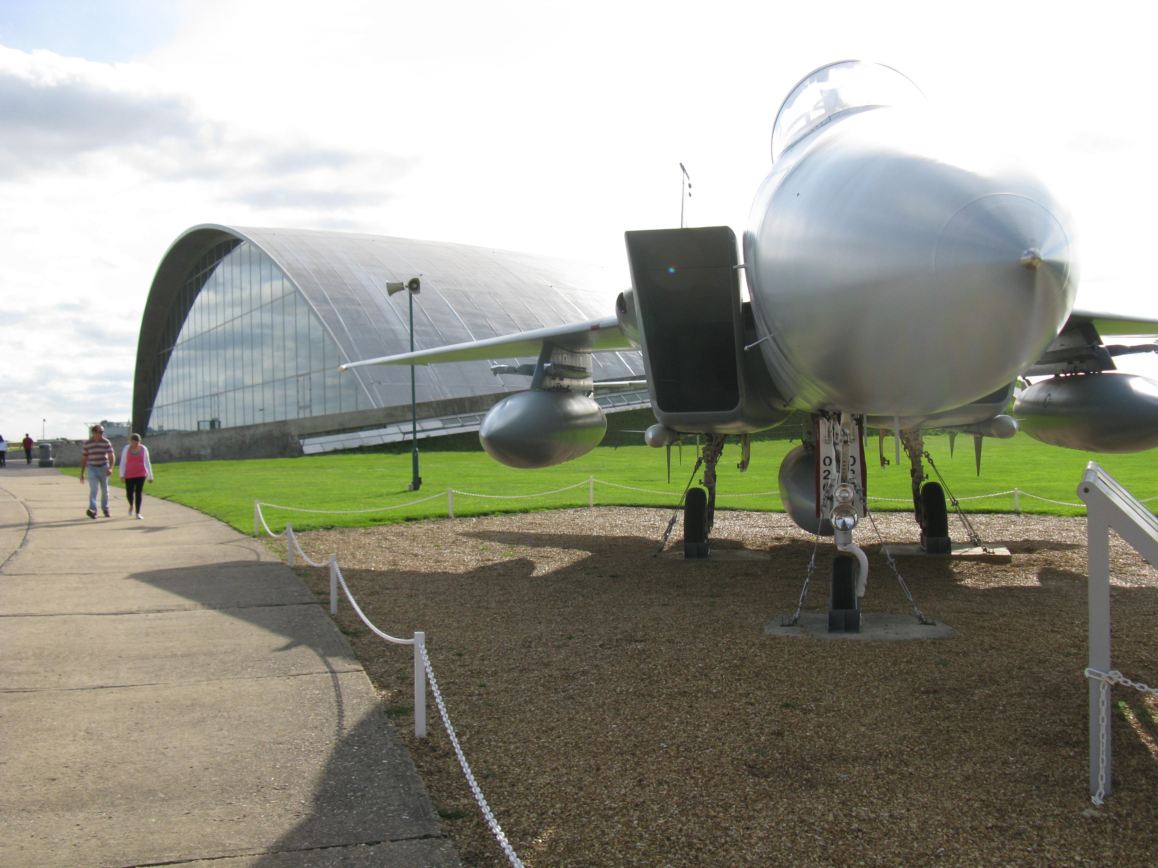 A US Air Force F-15 Eagle fighter aircraft on display at Imperial War Museum Duxford, with the American Air Museum behind.